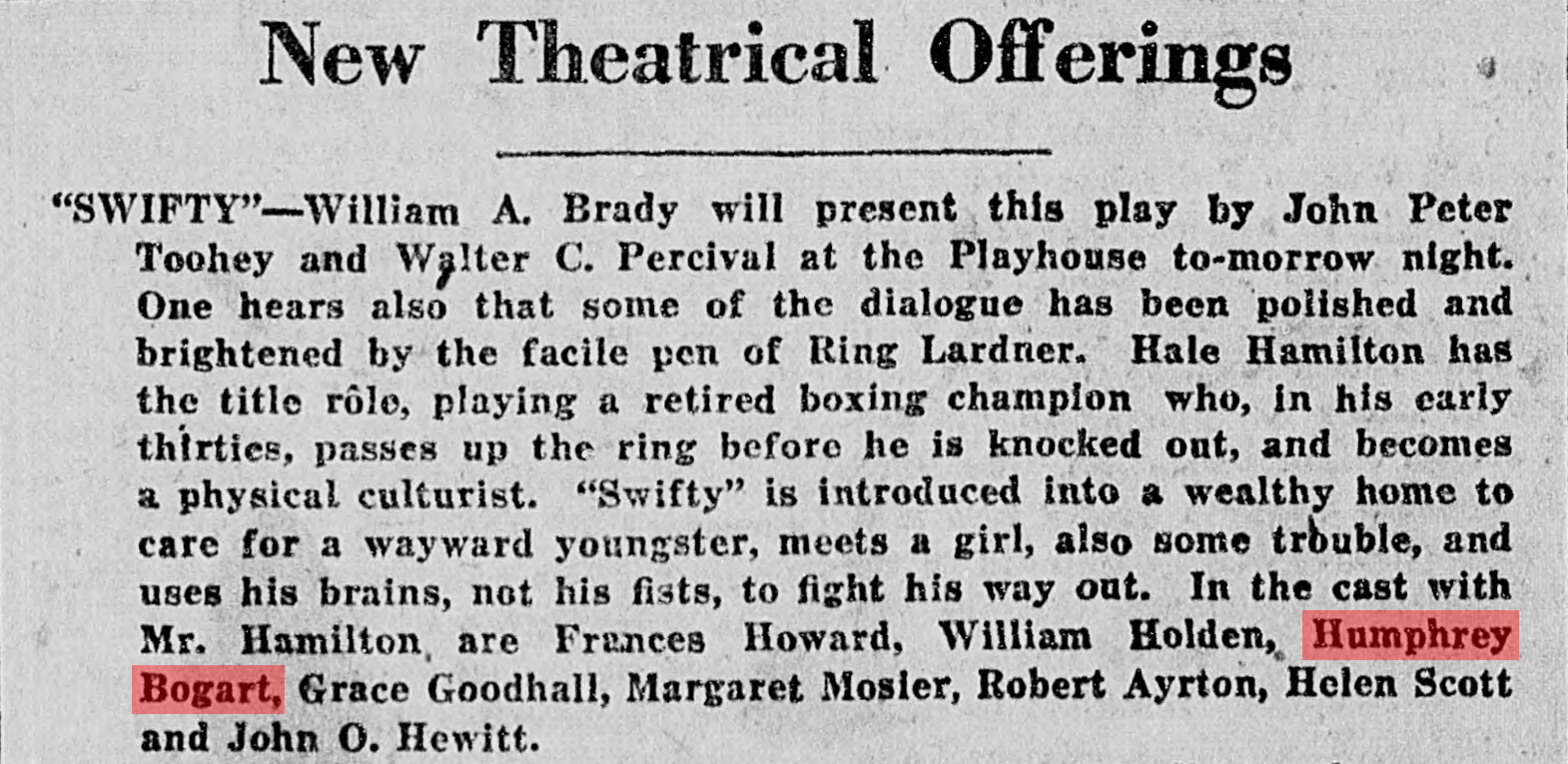 New York newspaper article for the stage play "Swifty", featuring a then unknown Humphrey Bogart.